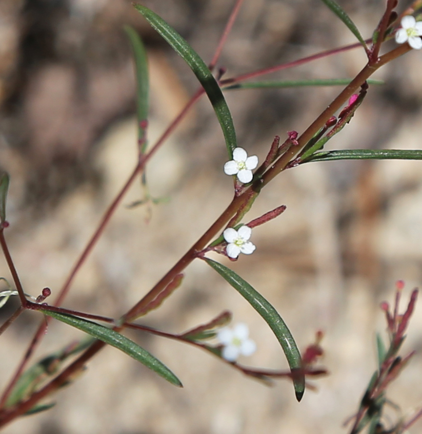 Blackfoot groundsmoke (Gayophytum racemosum), closeup of narrow-leaved, branching red stems and tiny white flowers (petals about 1mm long). At 10,300 ft (3,100 m) low along the trail into Little Lakes Valley and John Muir Wilderness, Inyo County, Sierra Nevada USA.